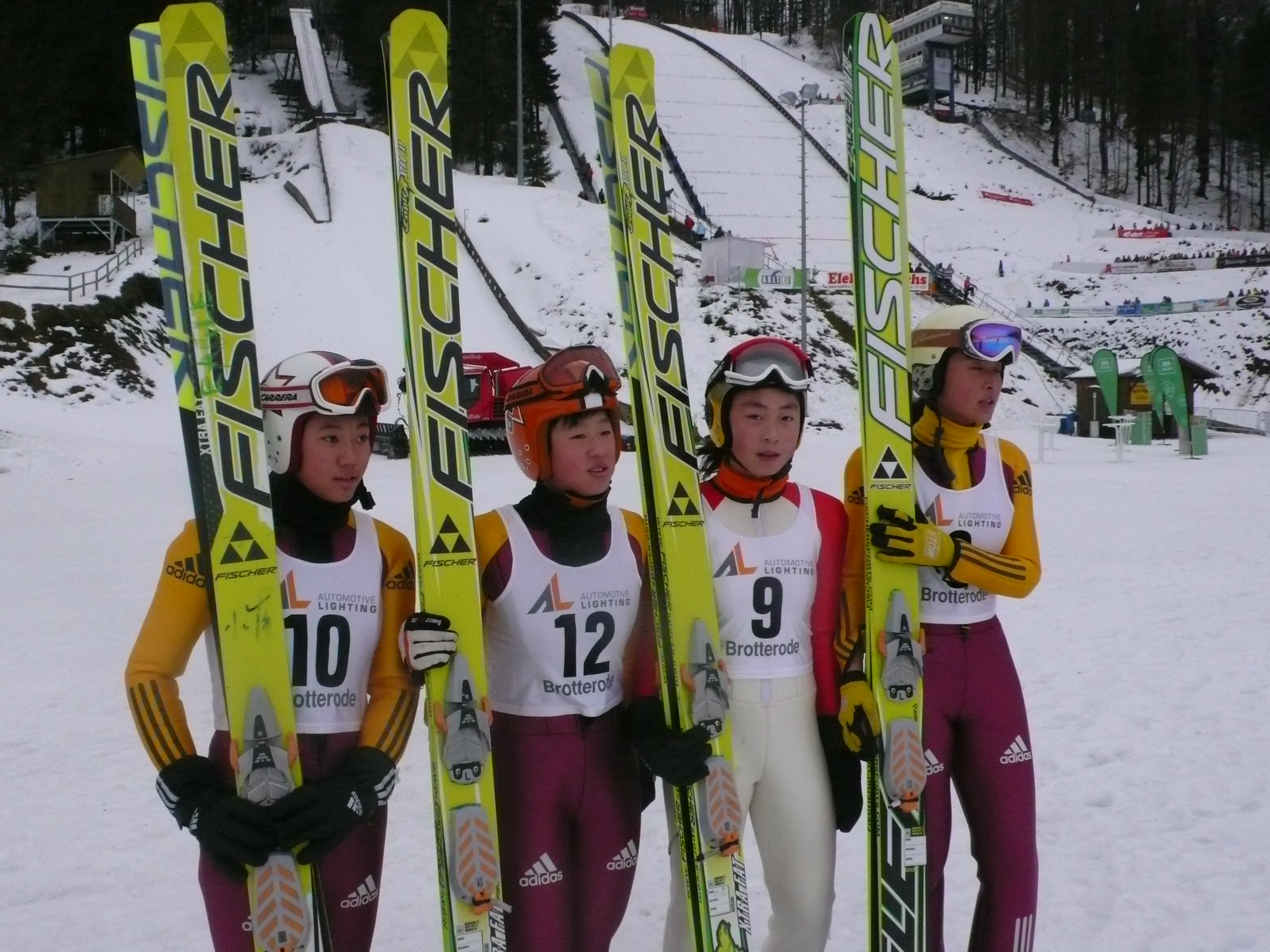 Chineses jumpers in Brotterode , the feminine team : Linlin Cui Xueyao Li Tong Ma Cheng Ji